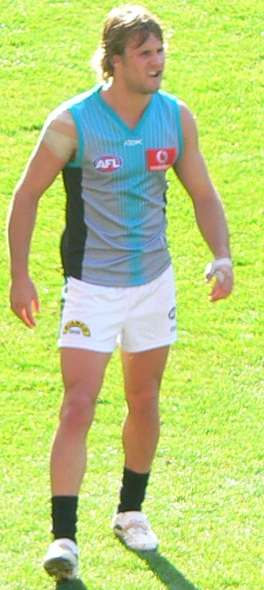 Jacob Surjan, Australian rules footballer